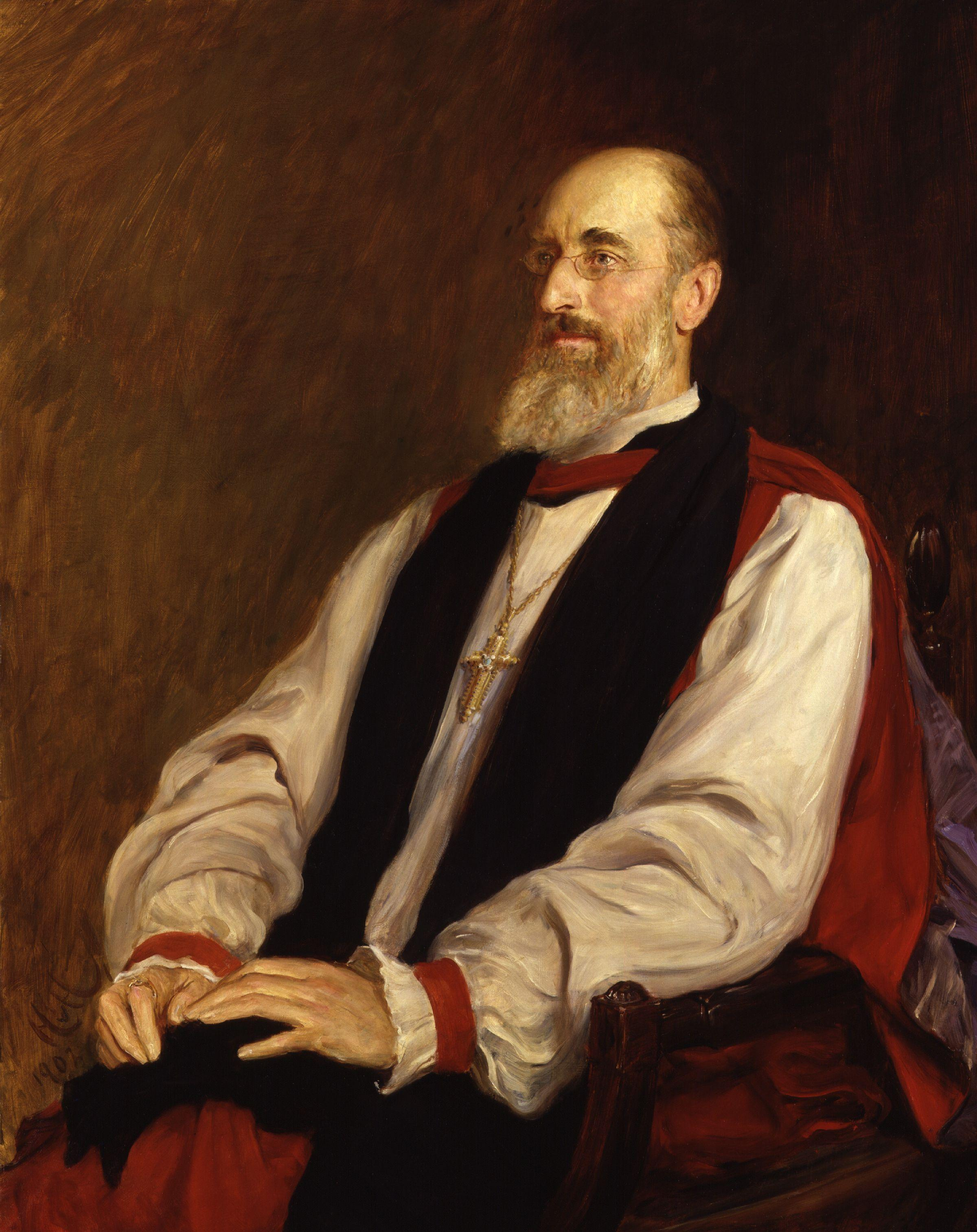 A man with a long beard sits facing to the left. His forehead and top is bald. He wears glasses and a bishop's uniform (white top, red bottoms, and a black scarf).